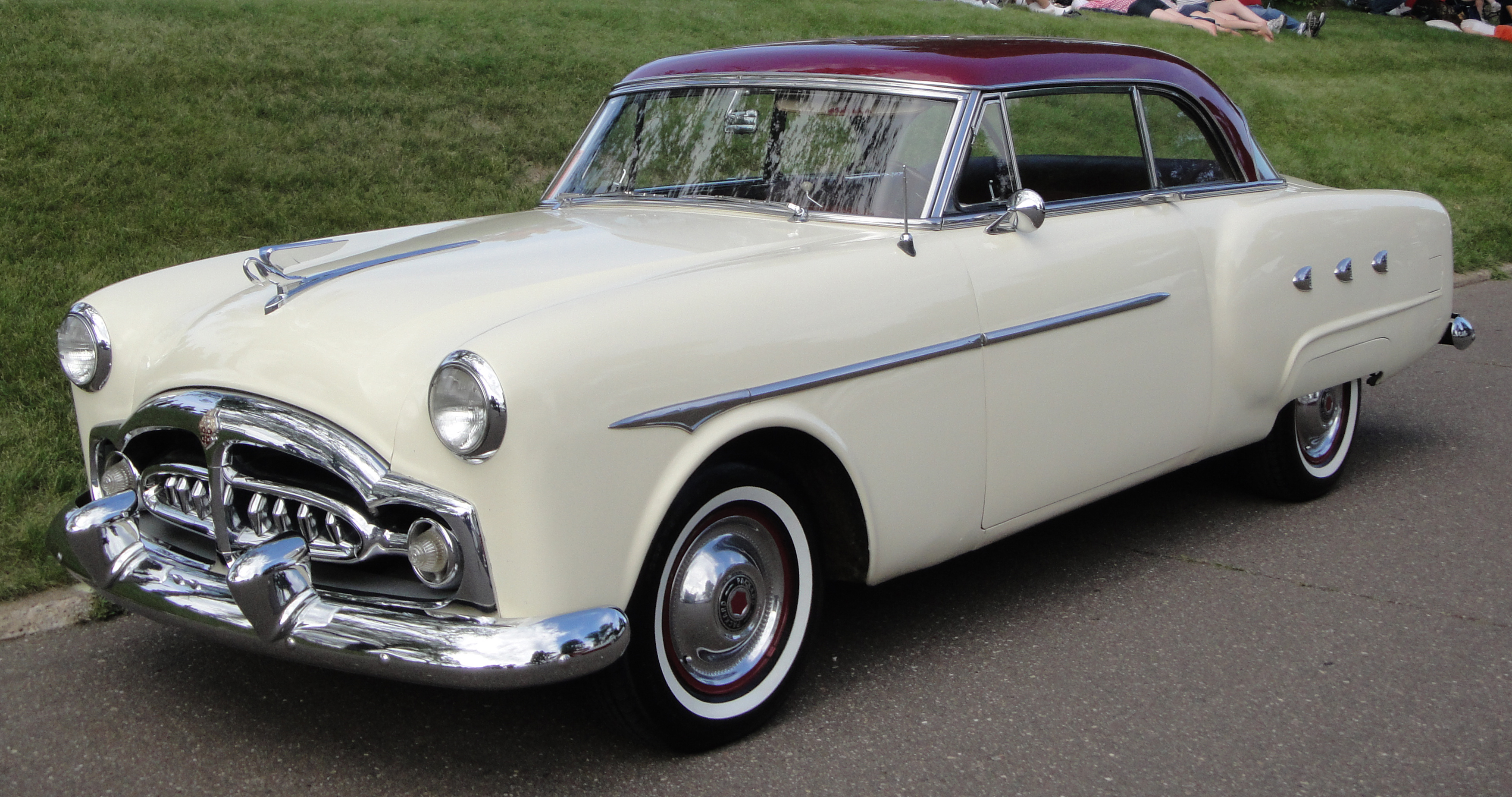 Minnesota Street Rod Association 39th Annual "Back to the Fifties" June 2012 Minnesota State Fairgrounds St. Paul MN